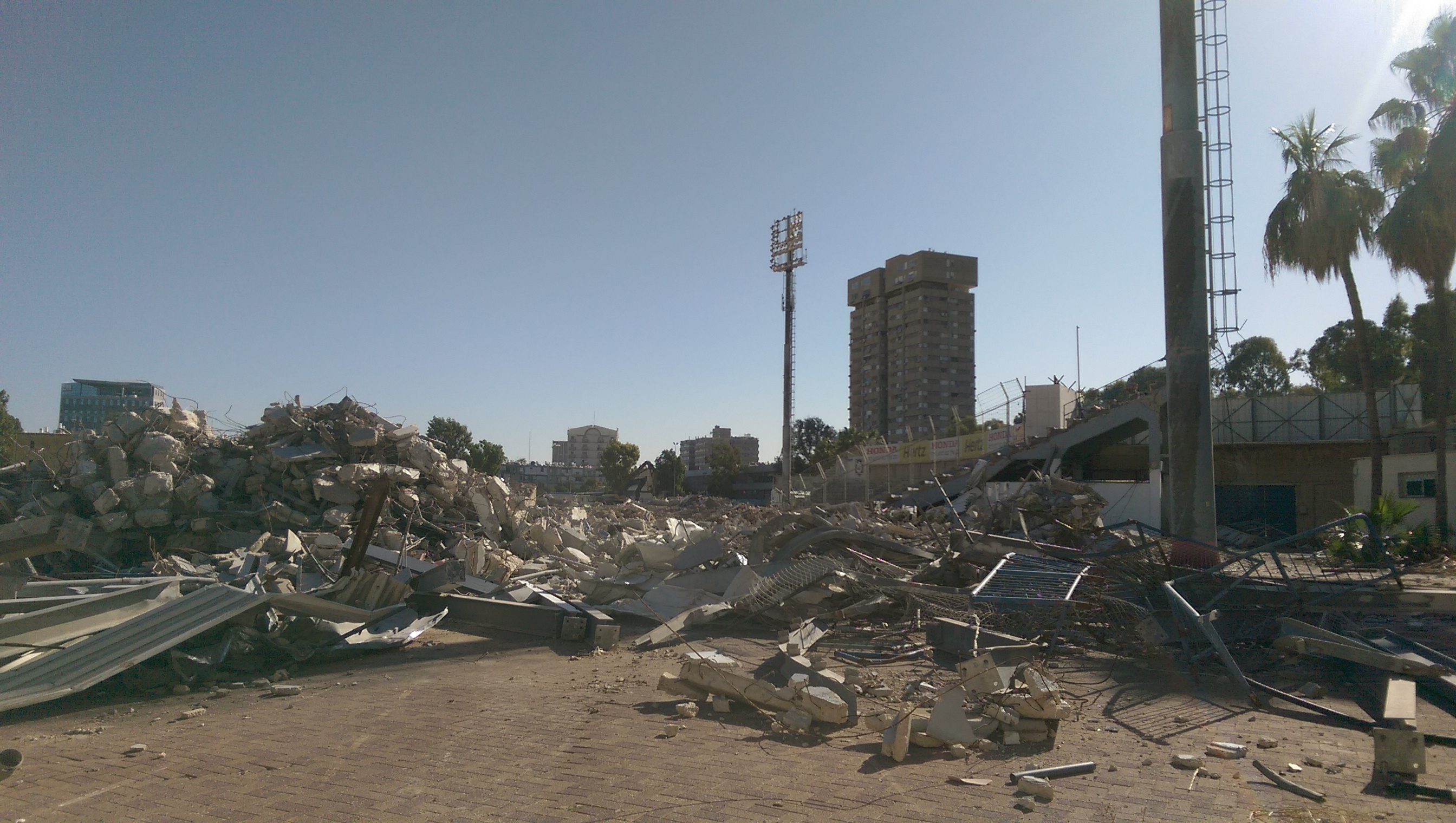 Kiryat Eliezer stadium